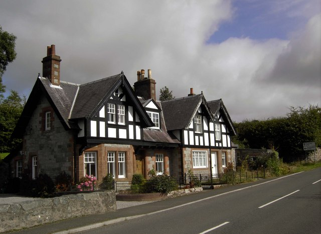 Houses in Caulkerbush Two houses of an unusual style for this area.